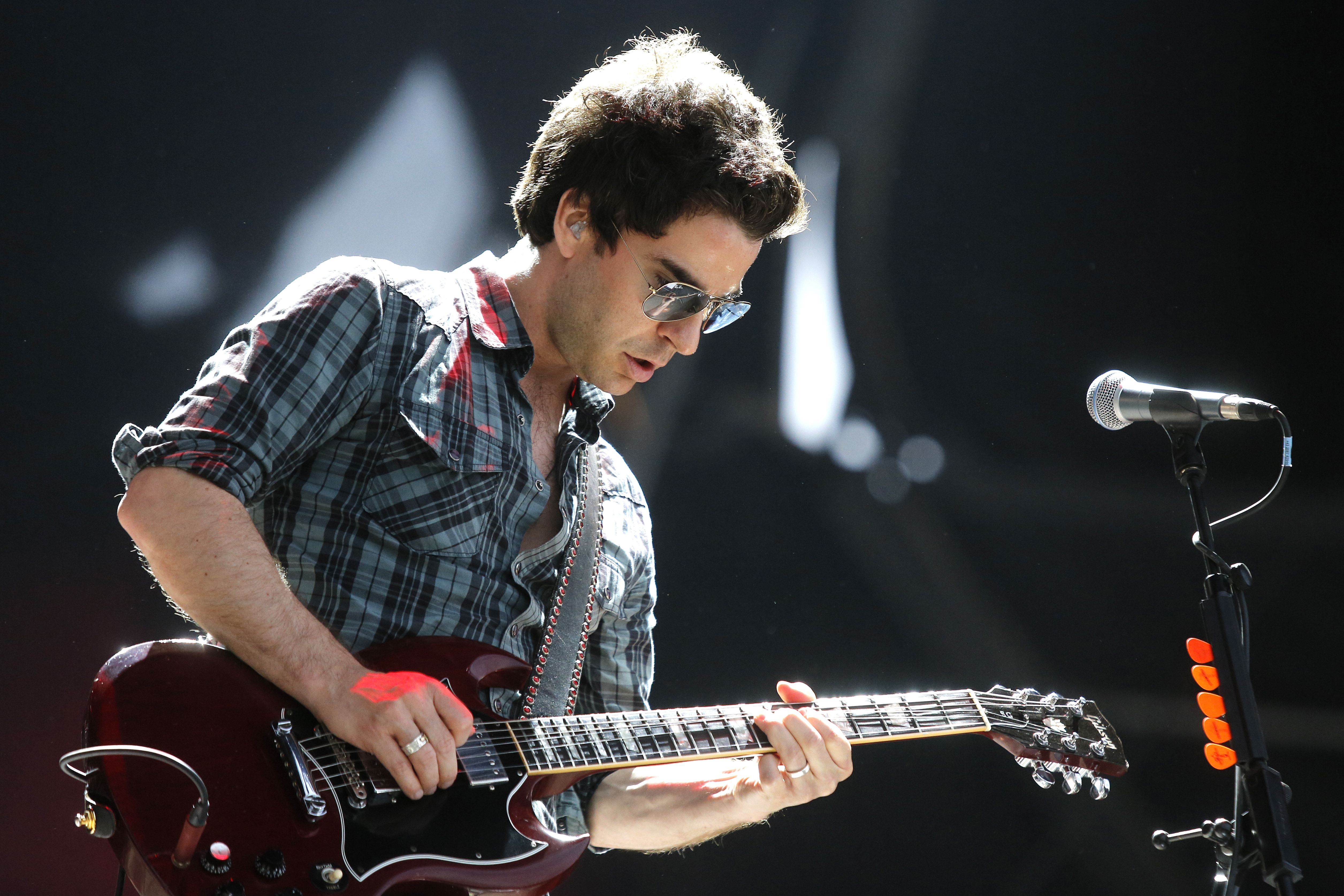 Kelly Jones, singer and guitarist of Welsh band Stereophonics at Nova Rock-Festival 2013.